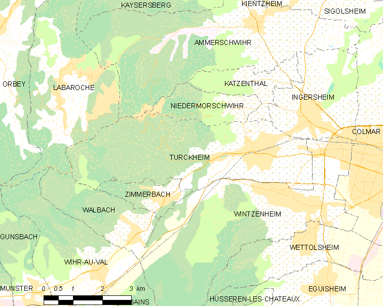 Map of French municipality